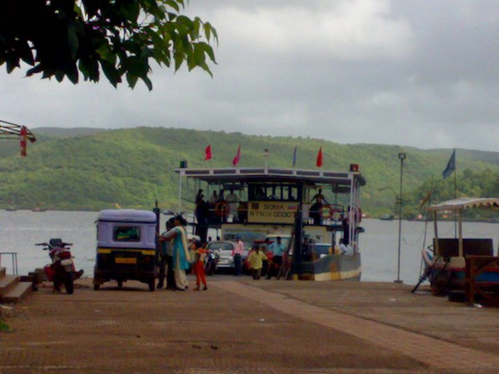 Dabhol Ferry Boat